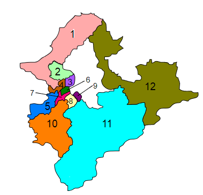 Map of New Taipei City legislative districts